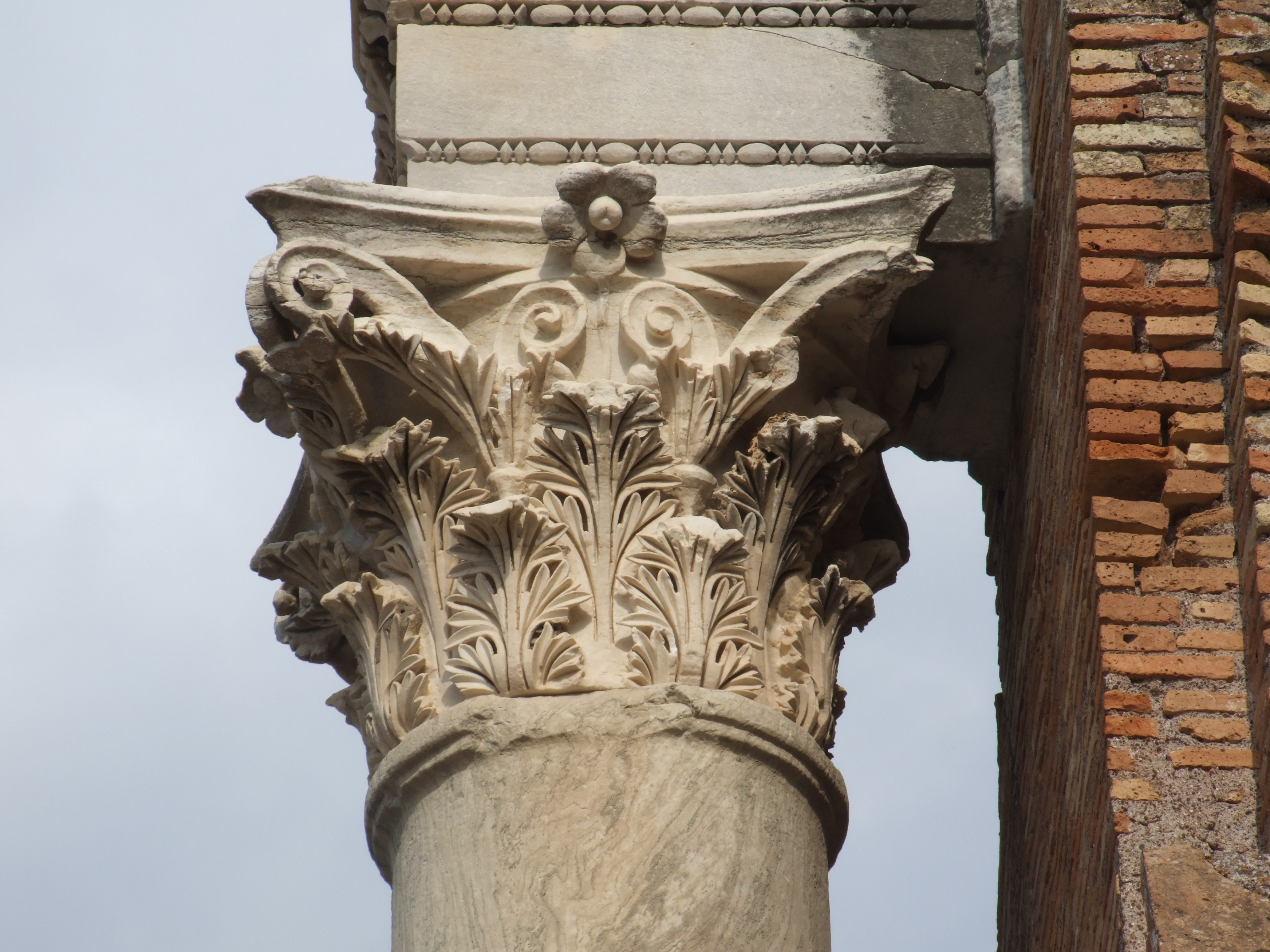 Asiatic corinthian capital from the Forum's Bath in Ostia